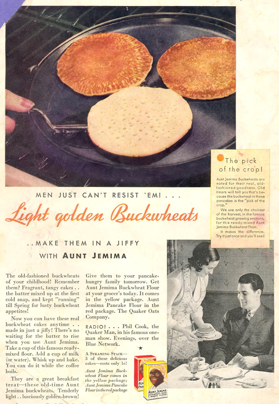 1932 advertisement for Aunt Jemima Pancake Mix from Quaker Oats Company. Out of the magazine Good Housekeeping.